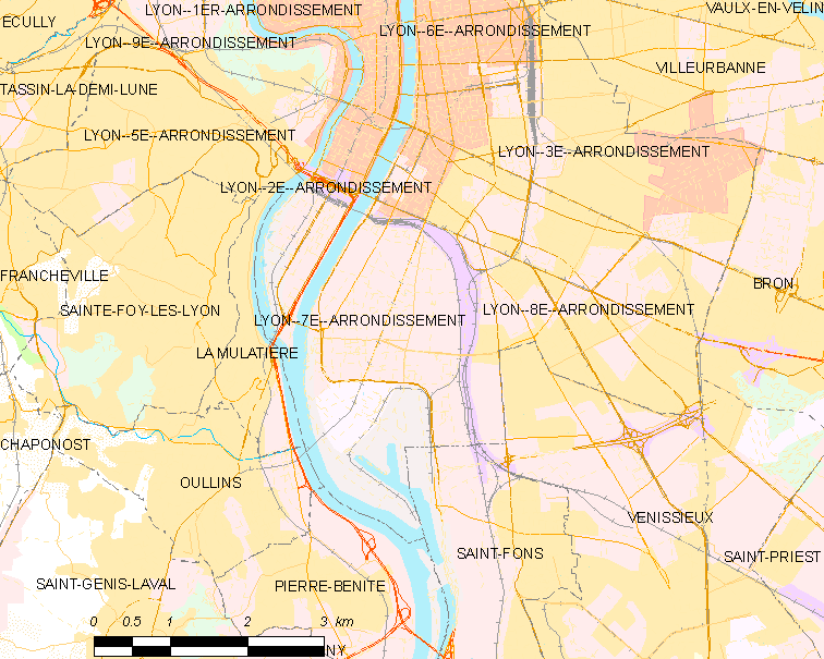 Map of French municipality